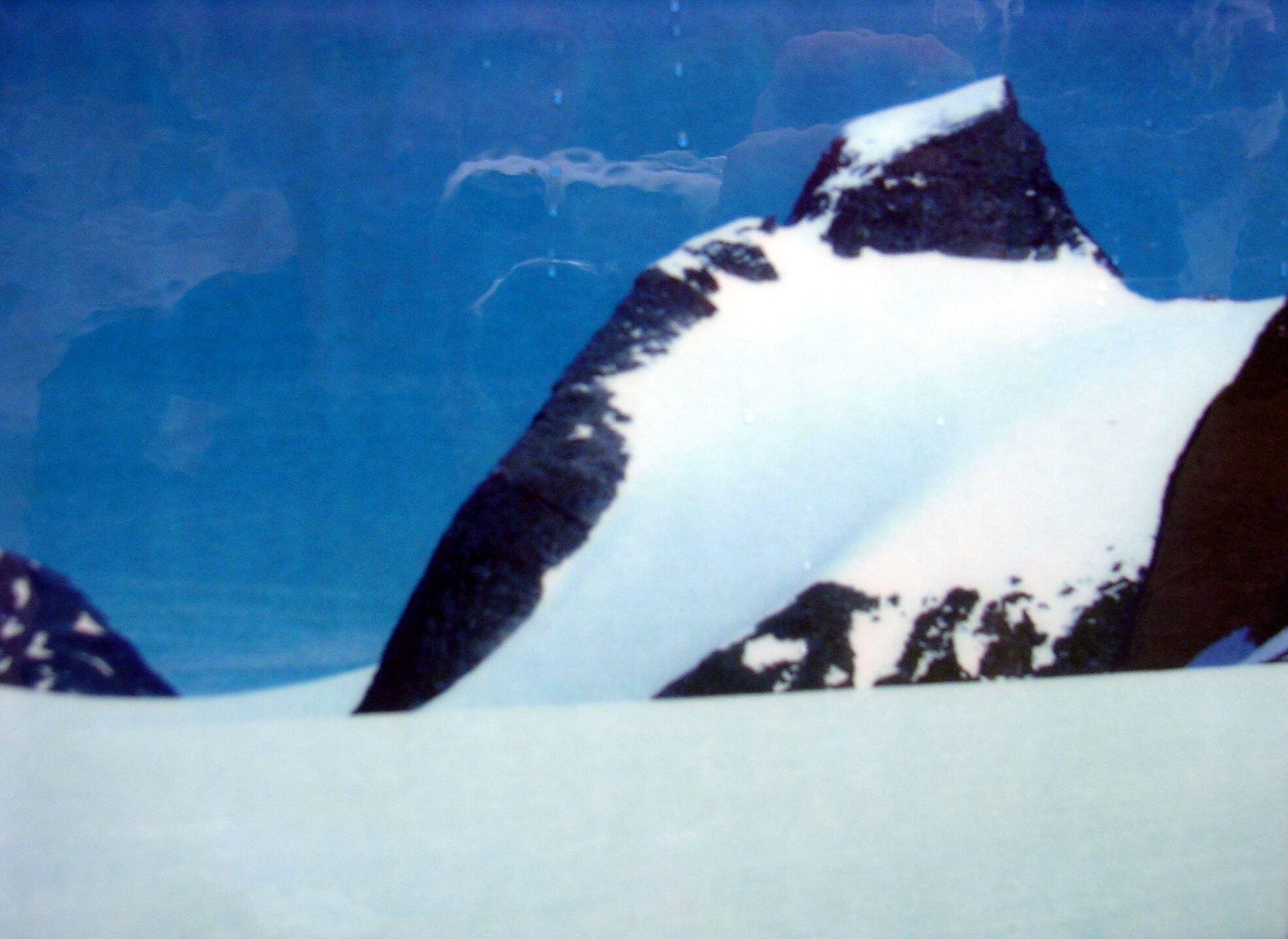 Lodalskåpa, a peak in the norh-east part of Jostedalsbreen. The picture is taken from Ståleskardet in south.